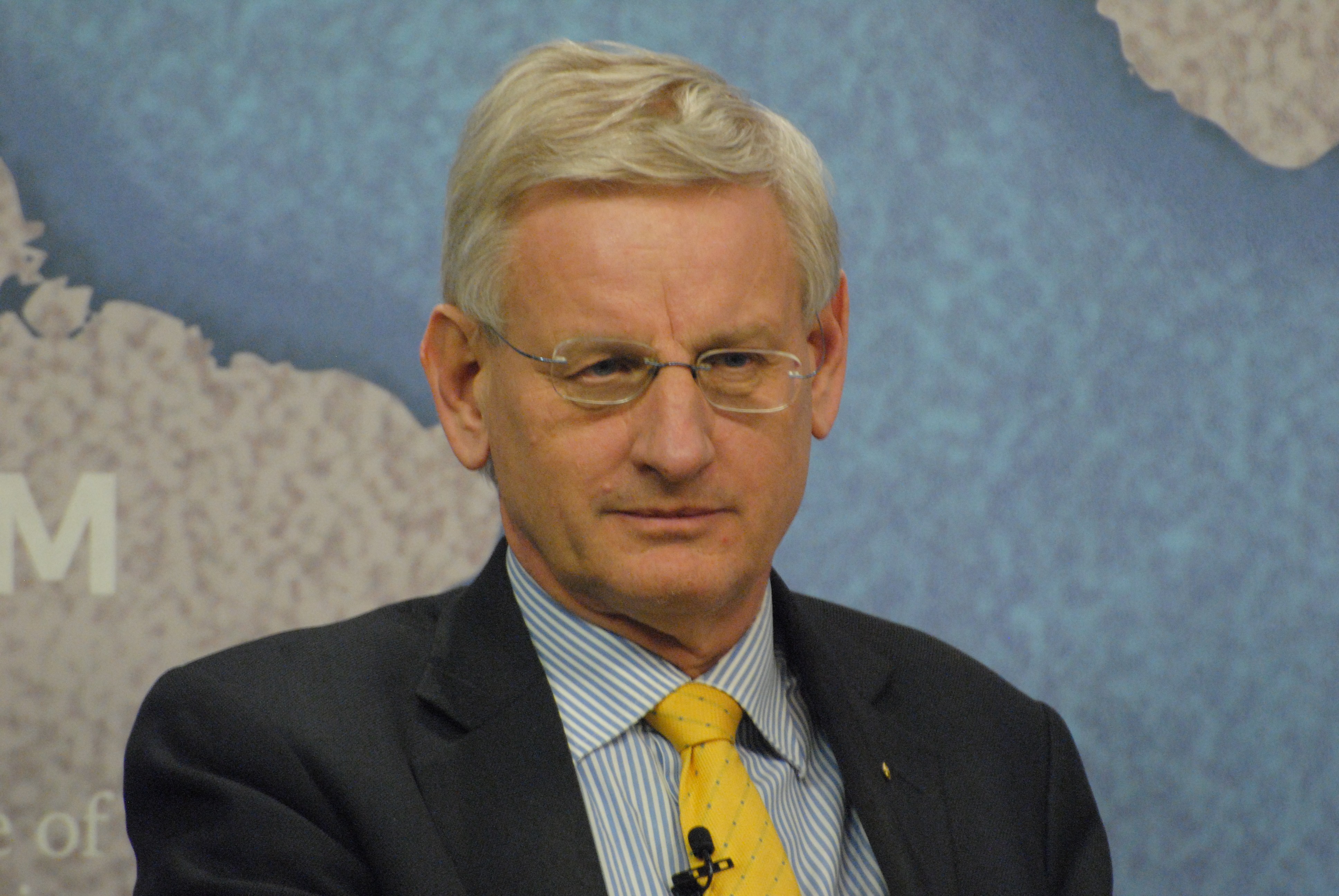 A Free and Open Internet: Threats and Opportunities in 2015, 13 February 2015, cht.hm/1E7Rt0t